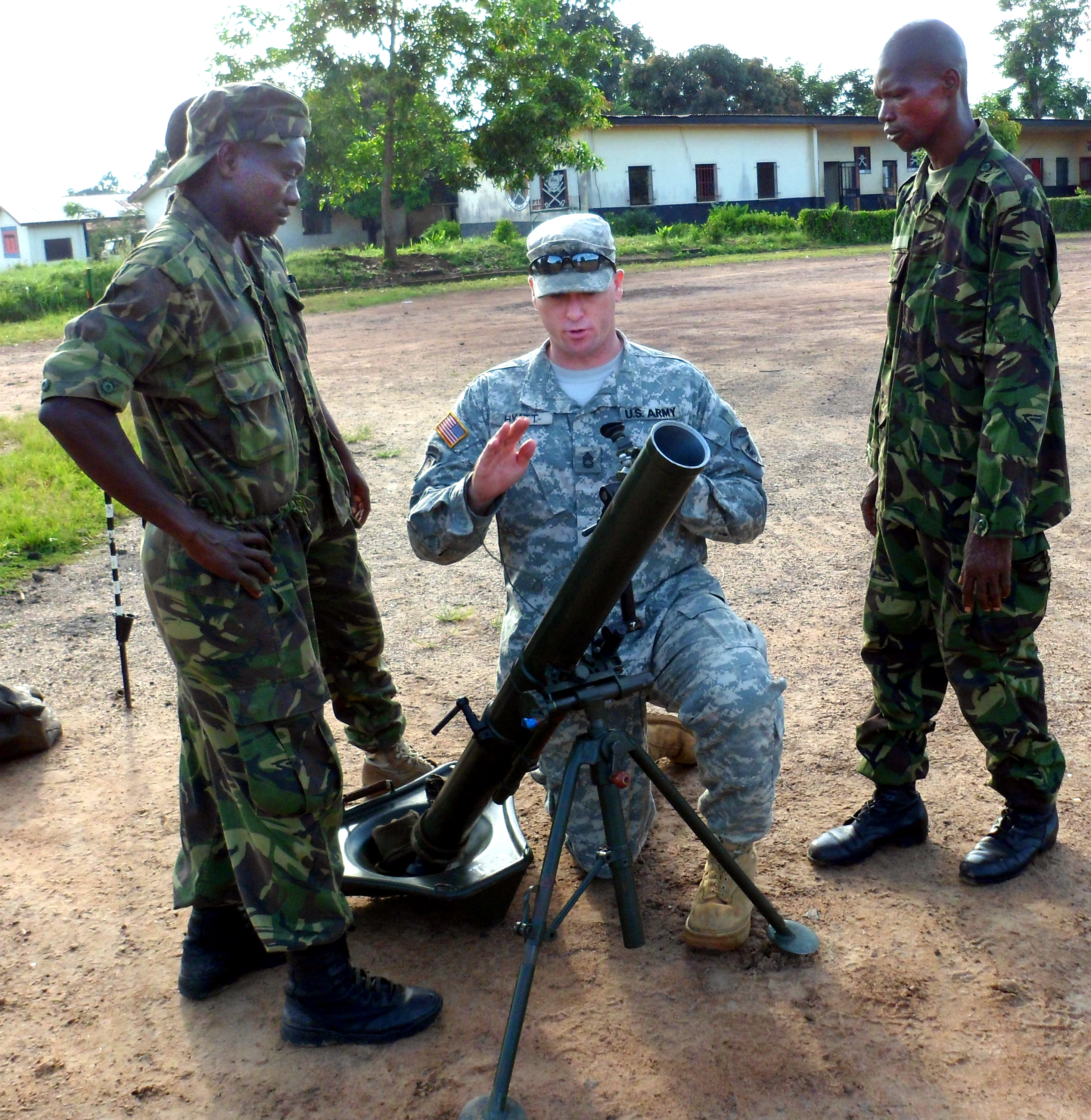 Sgt. 1st Class Grady Hyatt (kneeling) assists in training Republic of Sierra Leone Soldiers to use the Romanian 81/82 millimeter mortar. Mortar training took place at the Armed Forces Training Center near Waterloo, Sierra Leone. Hyatt is a military mentor for U.S. Army Africa with the U.S. Department of State’s African Contingency Operations Training and Assistance program known as ACOTA. U.S. Army photo.